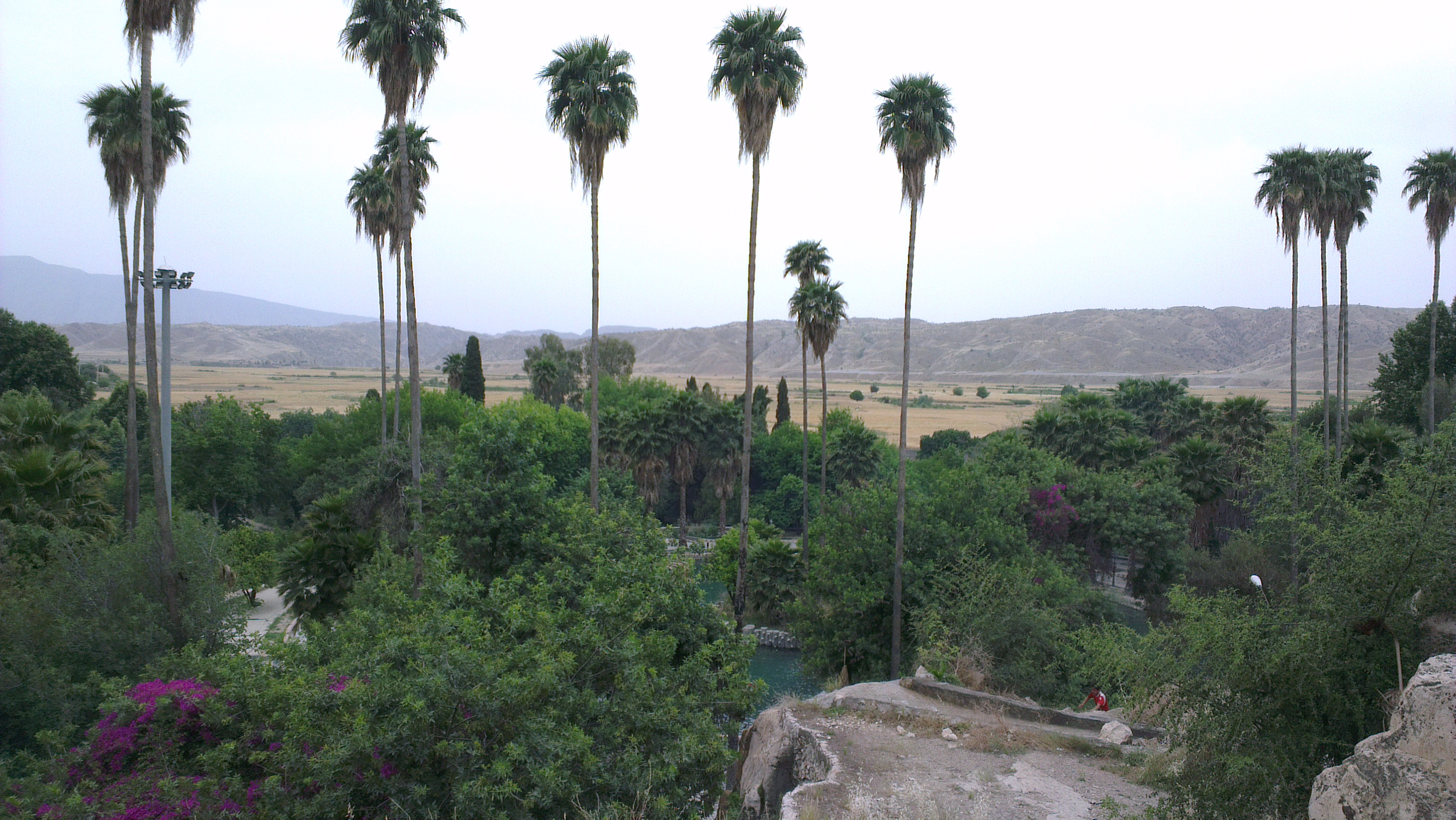 استخر چشمه بلقیس